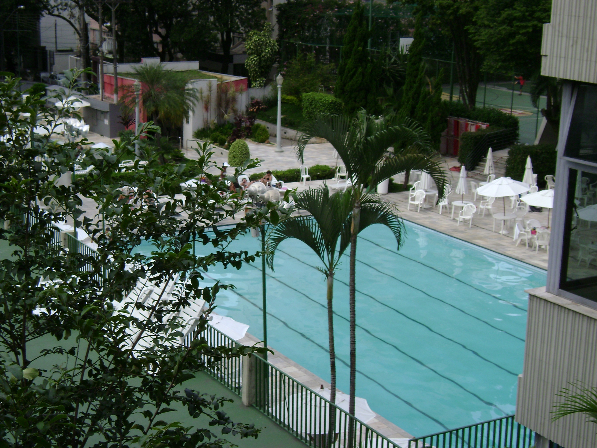 Piscina.